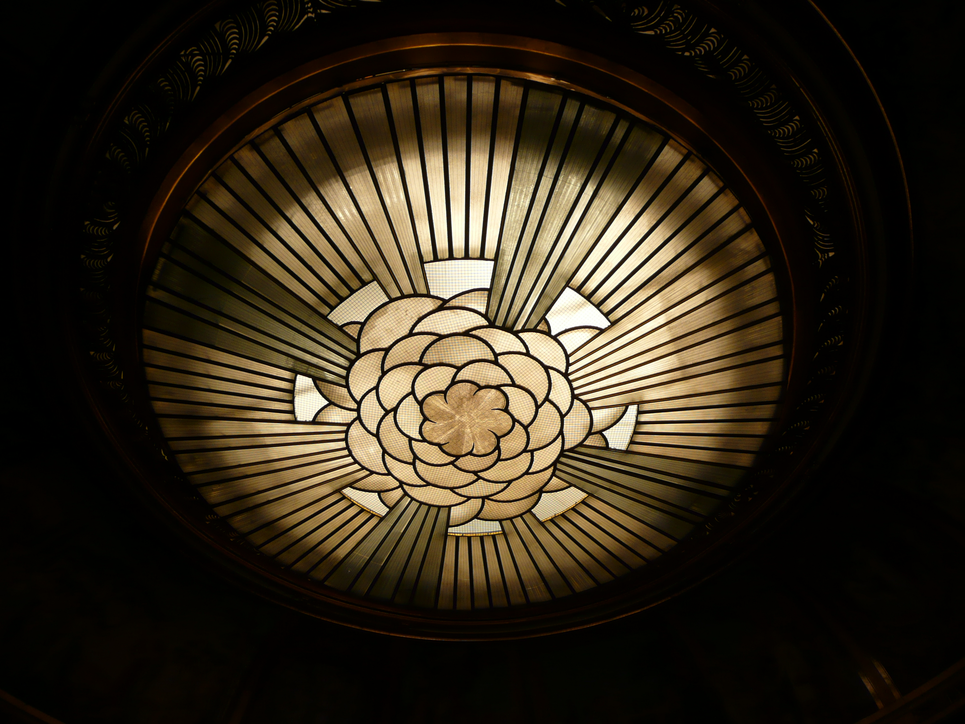 Ceiling Art Deco of the Théâtre des Champs-Élysées - Paris (France)